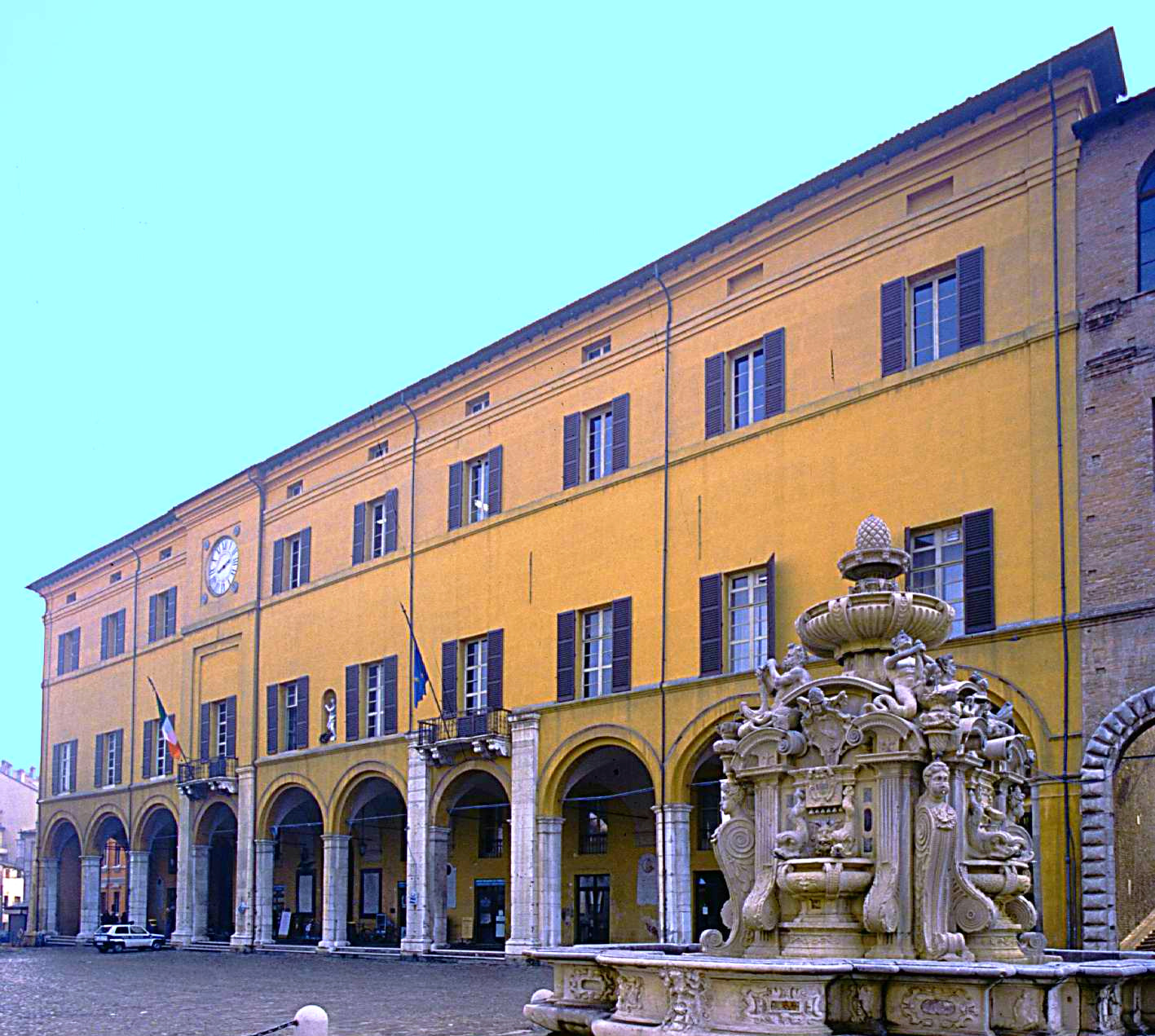 The "Palazzo Comunale" of Cesena